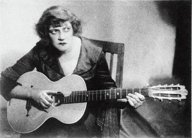 Faina Ranevskaya in one of Alexander Tairov's productions (1931).